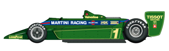 Lotus 1979 Formula One season